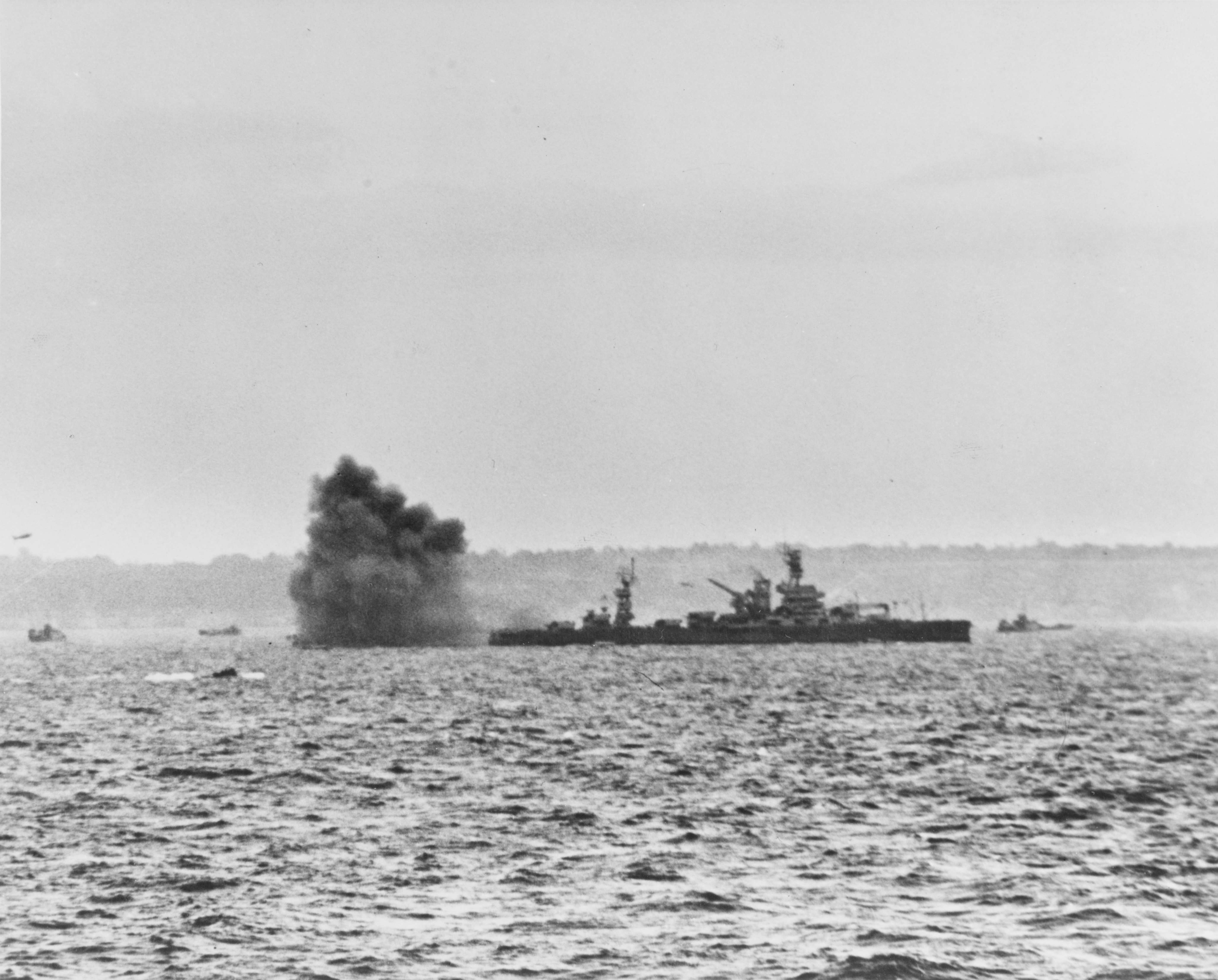 USS Arkansas (BB-33) fires her 12-inch guns at German positions, while supporting the Omaha Beach landings, 6 June 1944. Official U.S. Navy Photograph, now in the collections of the National Archives.